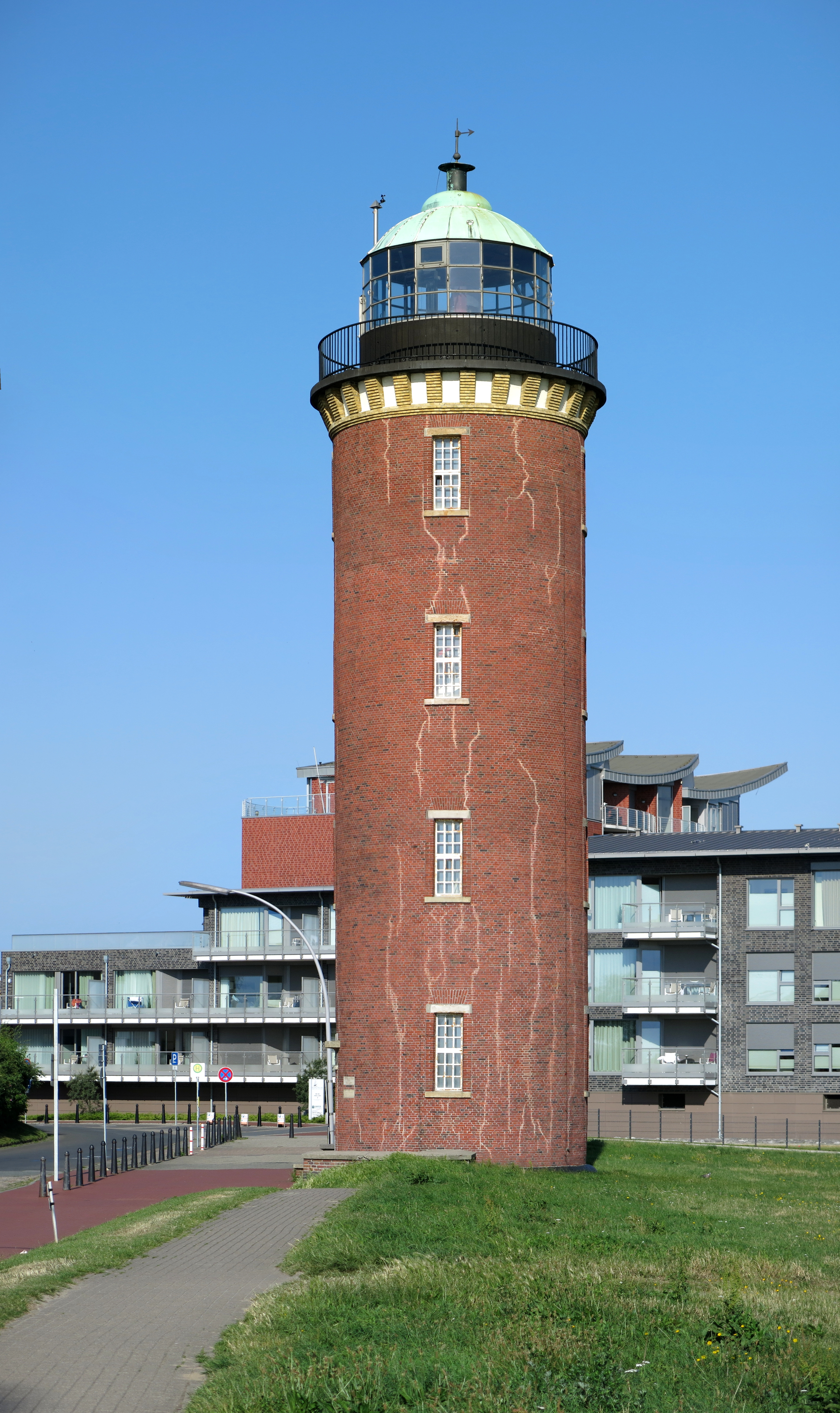 Lighthouse Hamburger Leuchtturm in Cuxhaven